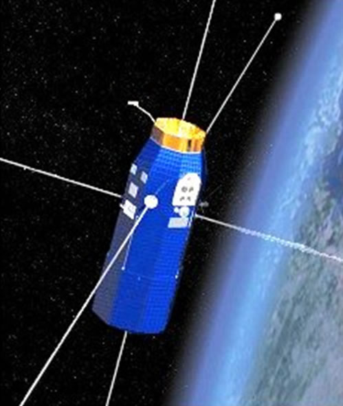 Communication/Navigation Outage Forecasting System (C/NOFS) The Space Vehicles Directorate is developing the Communication/ Navigation Outage Forecasting System (C/NOFS) to demonstrate a technique for locating and forecasting scintillations in the low latitude ionospheric